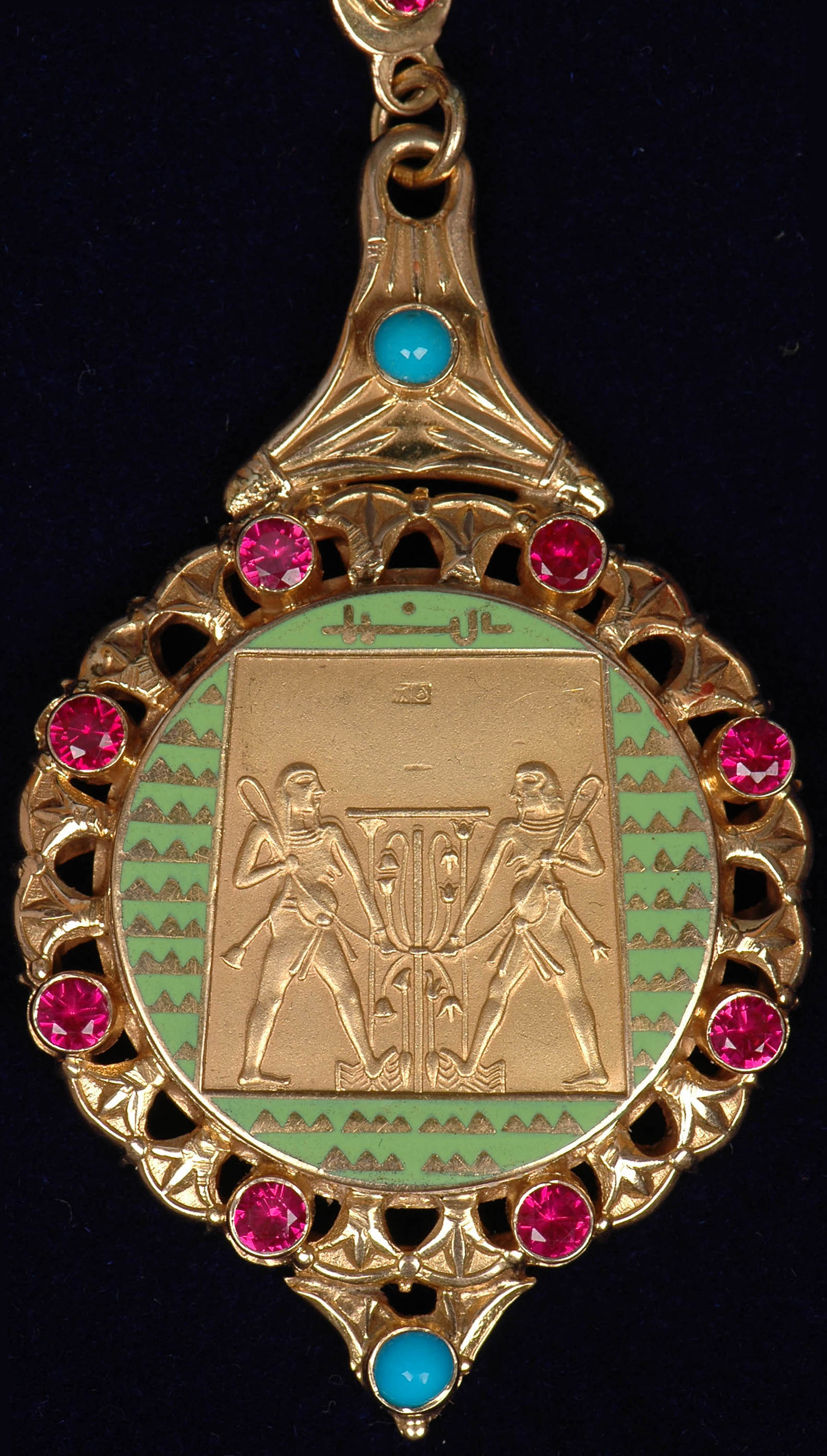 Order of the Nile